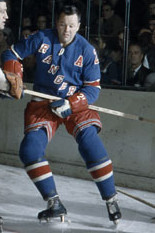 "There's no action like hockey action." Montreal Canadiens versus the New York Rangers (archival notation states Toronto Maple Leafs versus New York Rangers, but appears to be incorrect) (Canada)